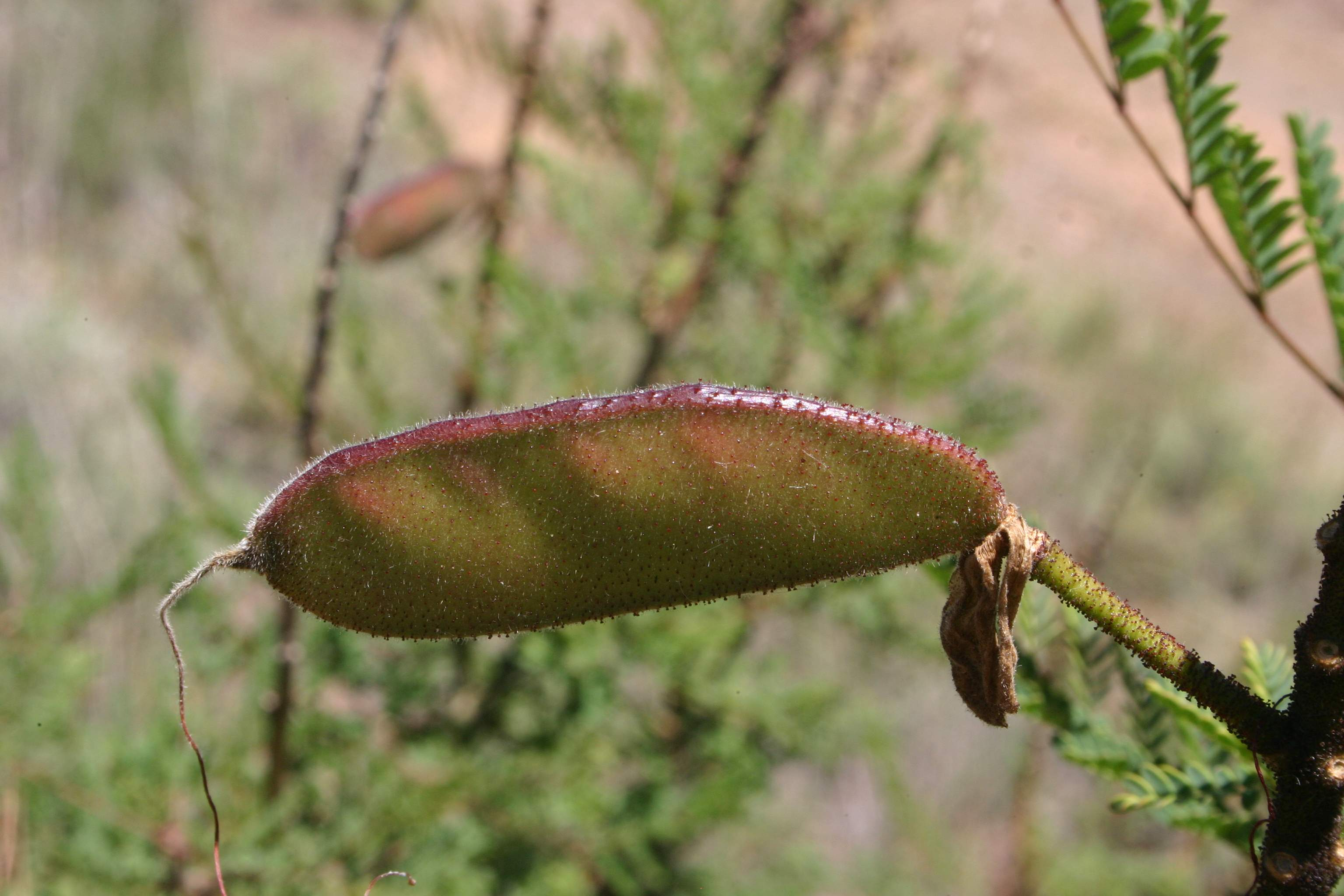 Pod of Caesalpinia gilliesii from shrub growing between Cradock and Middelburg, South Africa